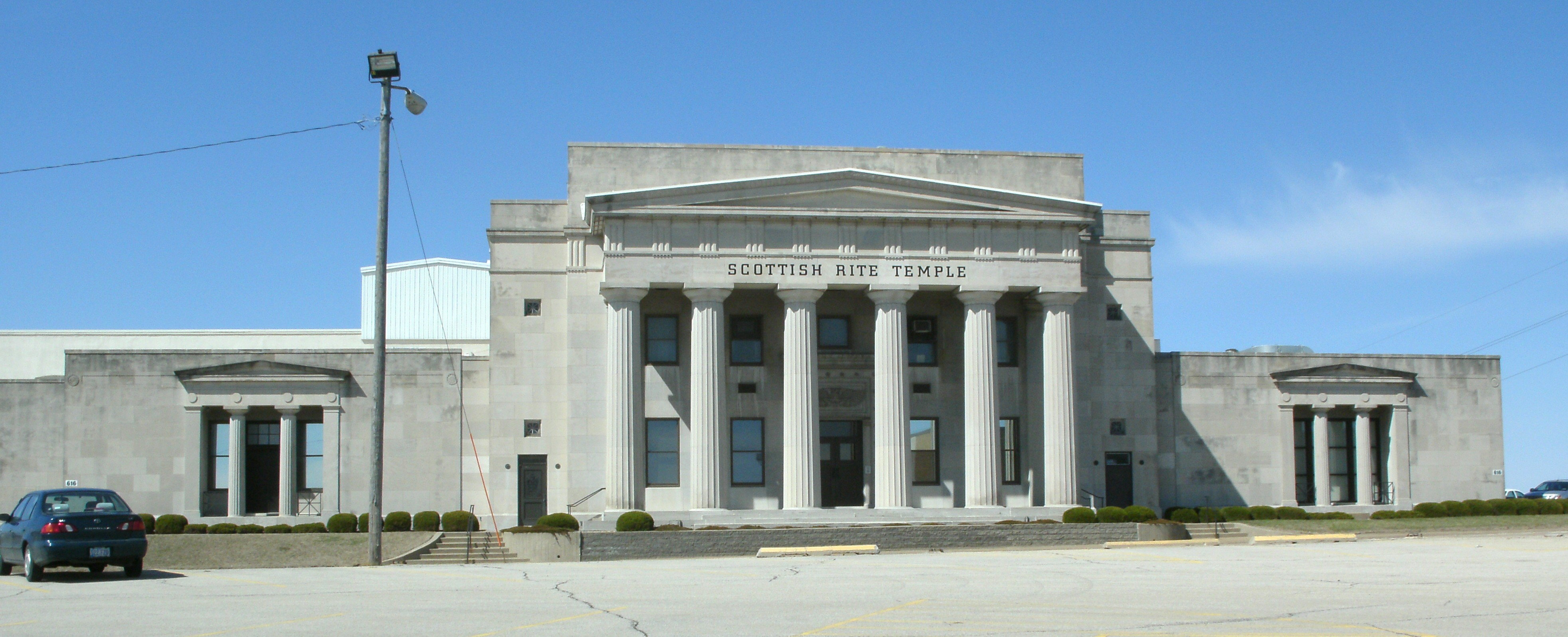 Consistory Building No. 2 also known as the Scottish Rite Temple located at 616 A Ave Northeast in Cedar Rapids, Linn County, Iowa is on the National Register of Historic Places. Front / street view.